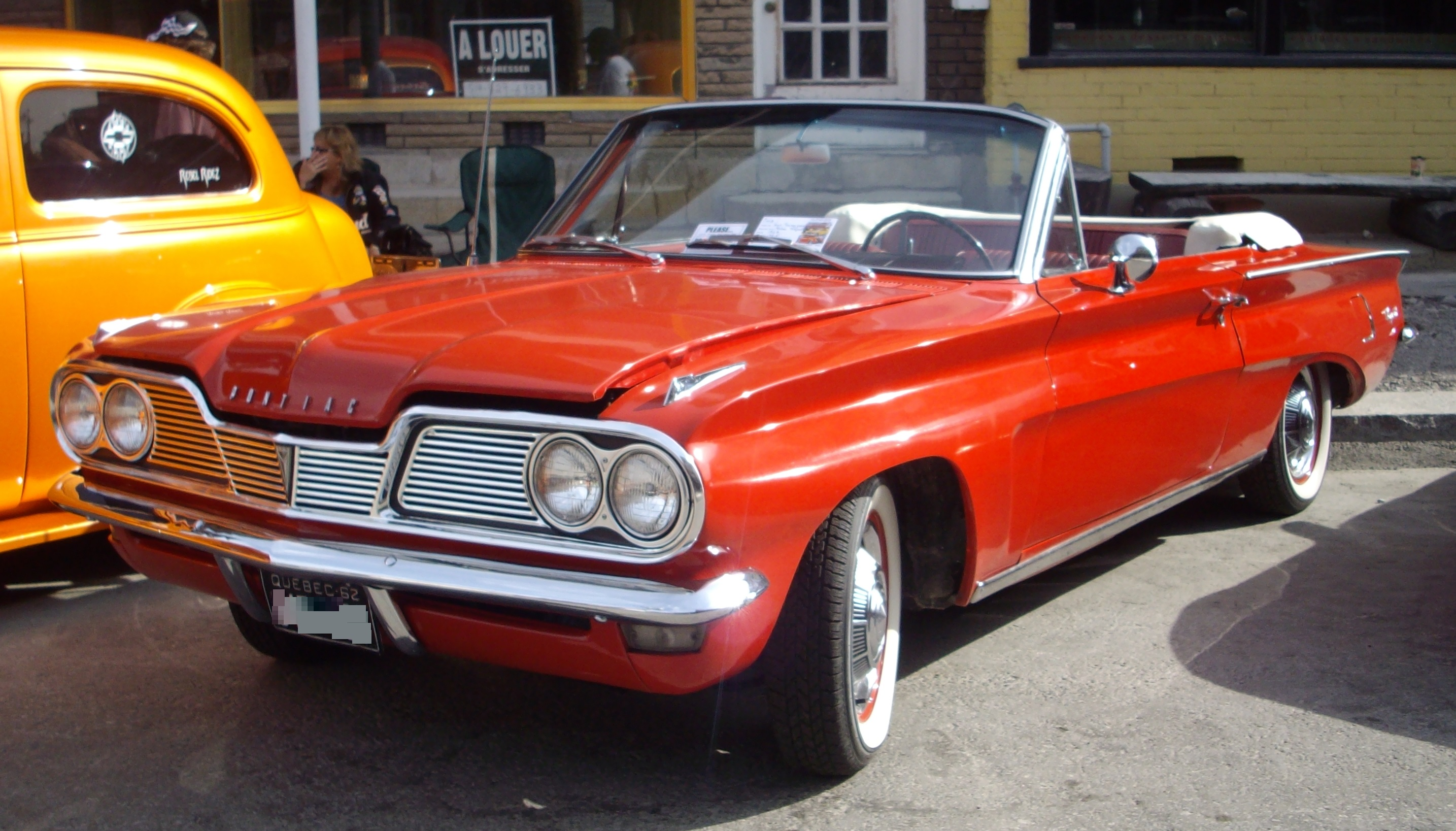 1962 Pontiac Tempest photographed in Montréal, Quebec, Canada at Destination Décarie 2012.